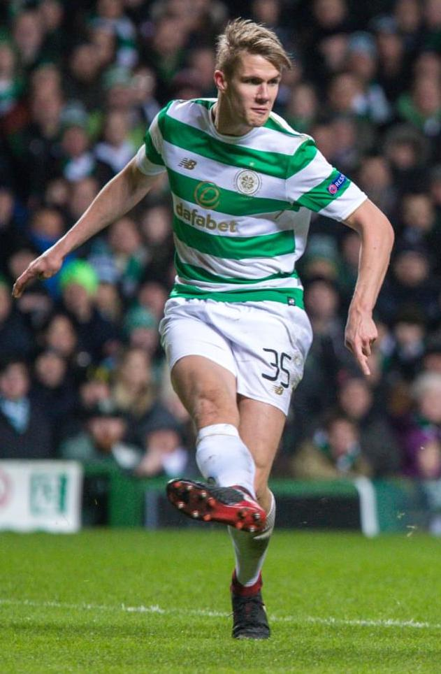 16.02.2018. Великобритания, Глазго, «Селтик Парк». Лига Европы УЕФА 2017/18, «Селтик» — «Зенит».